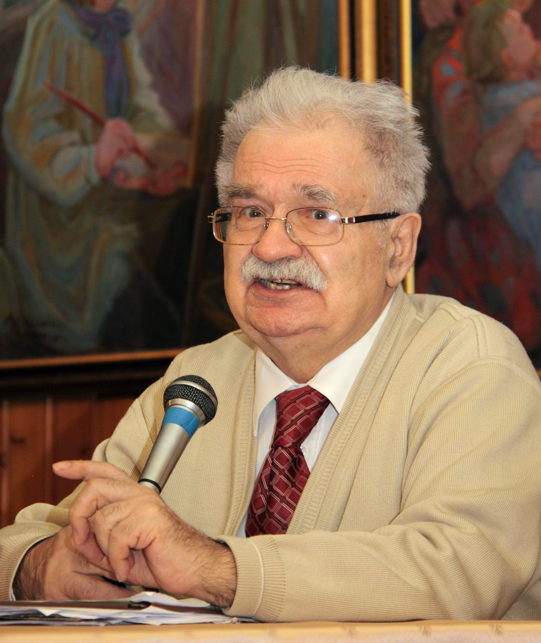 Jerzy Robert Nowak - Polish historian, publicist, assistant professor of political science. Krakow, 10 February 2013